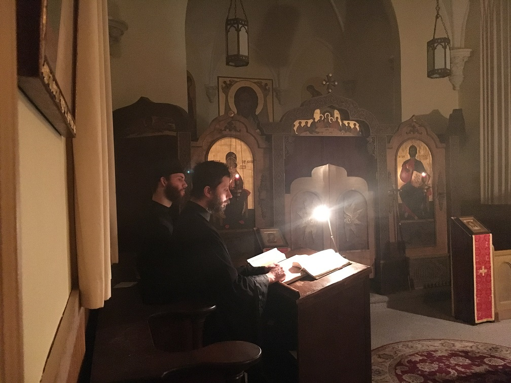 Compline